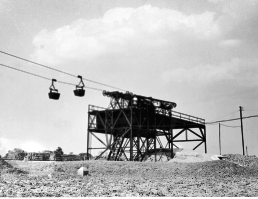 WMP Ministry/August.49,A45aDamodar Valley Project (West Bengal and Bihar) is one of the most important shemes which are being executed by the Central Waterpower, Irrigation and Navigation Commission – India’s National agency, for the multipurpose utilization of water resources. Sand-stowing head is a Jharia Colliery. Sand is received at this end through a ropeway from the Damodar river-bed and blown into the mine-shafts and tunnels.